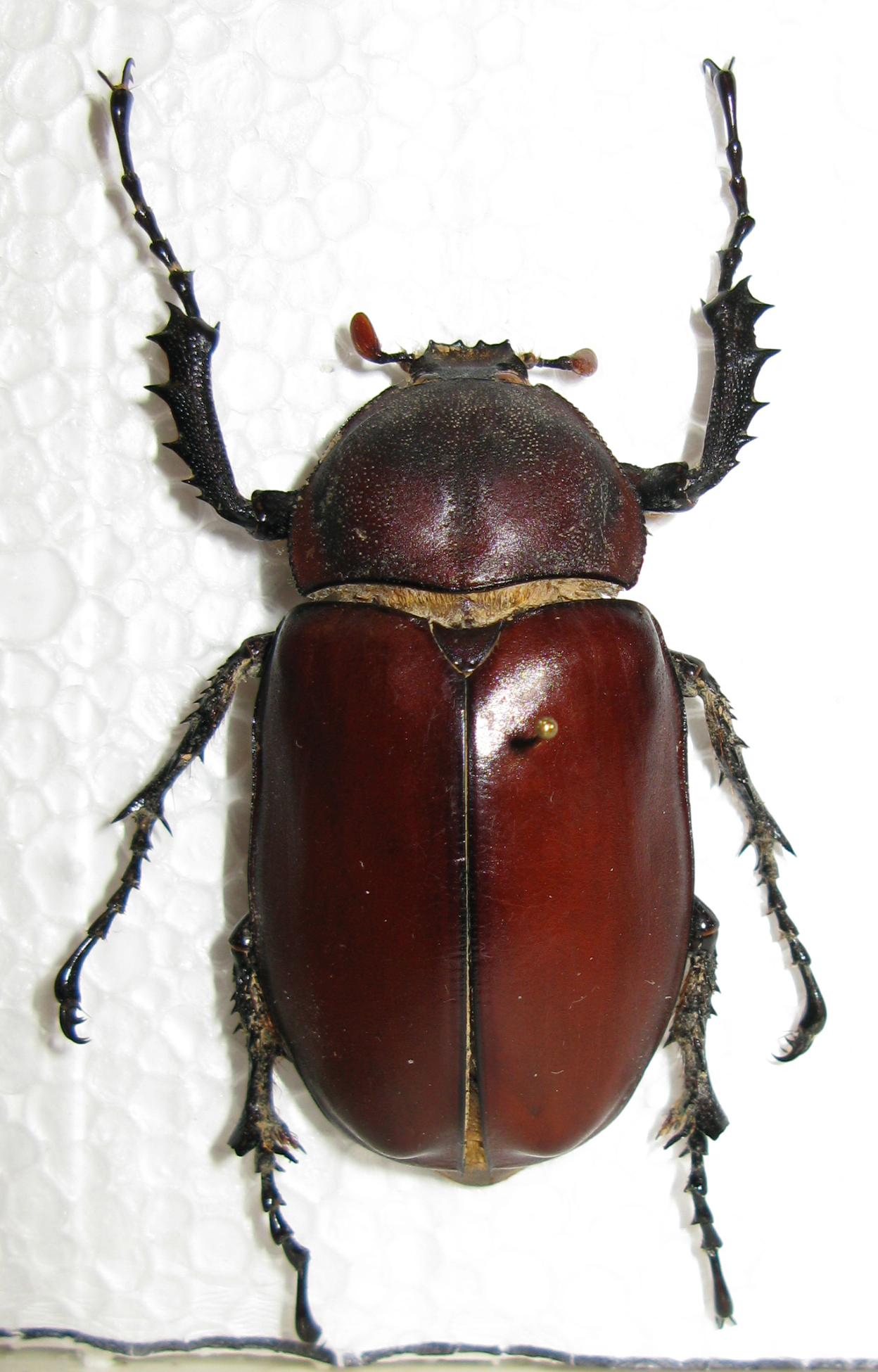 Euchirus longimanus (female)